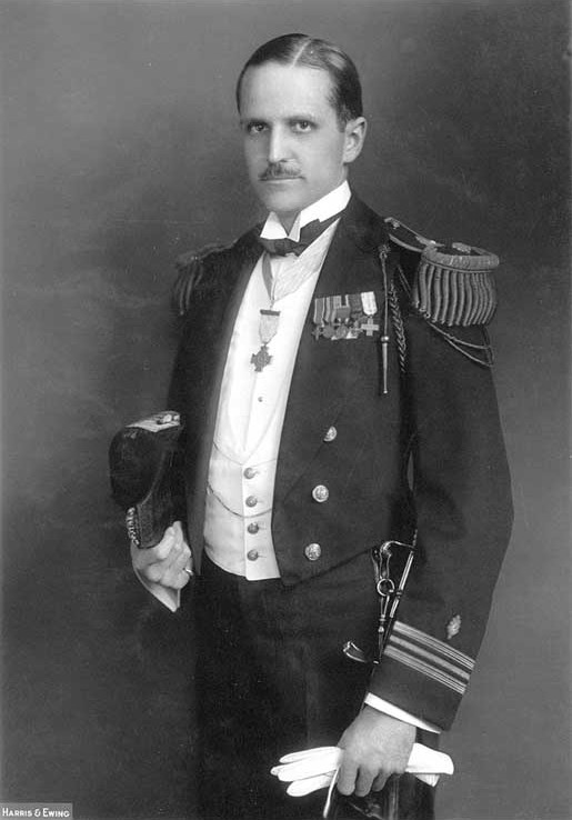 Joel Thompson Boone (1889-1974), circa 19 July 1918 wearing the Medal of Honor he received for his helping the wounded during a battle in the vicinity of Vierzy, France on 19 July 1918.